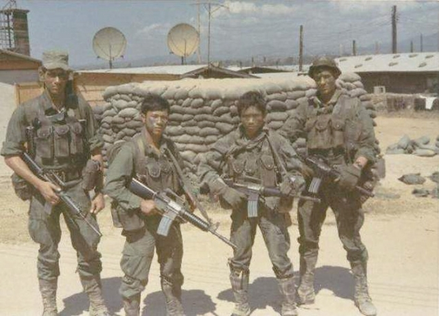 Degar/Montagnard troops with U.S. Army soldiers during the Vietnam War.